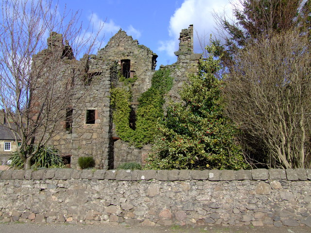 Denmylne Castle This ruin of a castle is situated fairly close to the A914 just out of Newburgh.